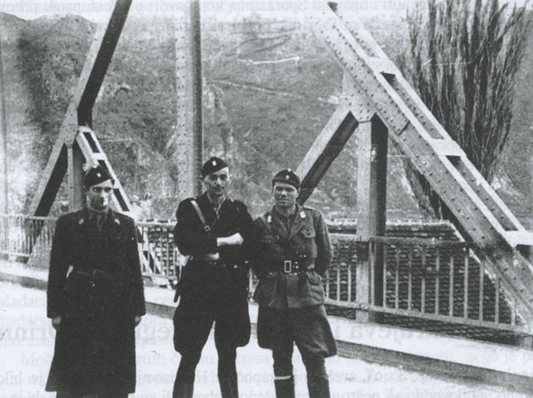 From left to right, the unidentified Ustashe officer, Jure Francetić, and Rafael Boban at the bridge across the Drina river in Zvornik.